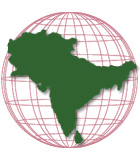 Seal of Bureau of South Asian Affairs